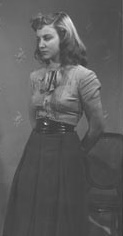 Alma Vélez- actriz